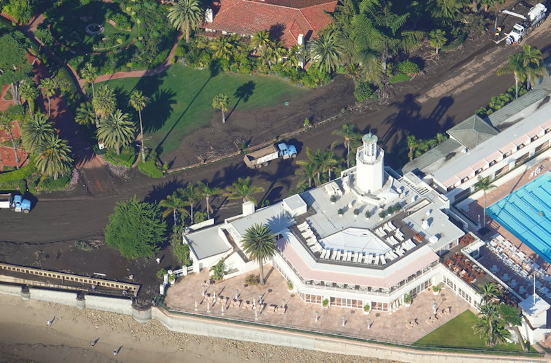 Aerial: Butterfly Beach Debris taken January 11, 2018 of the catastrophic debris flow from heavy rains after the Thomas Fire. This is one of hundreds of aerial photos I took of this regional disaster, both the fire and debris flow.